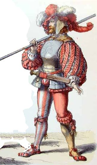 Landsknecht in mi-parti